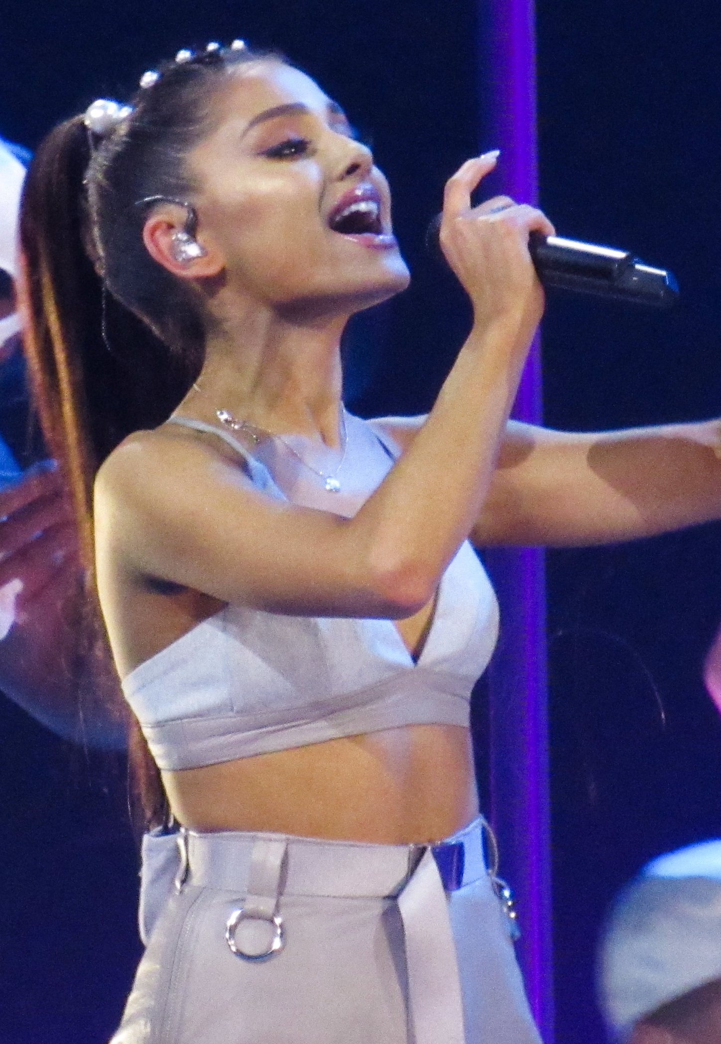 Dangerous Woman Tour 2/19/17 Ariana Grande performing during Dangerous Woman Tour in Manchester, New Hampshire, SNHU Arena, on February 19, 2017.